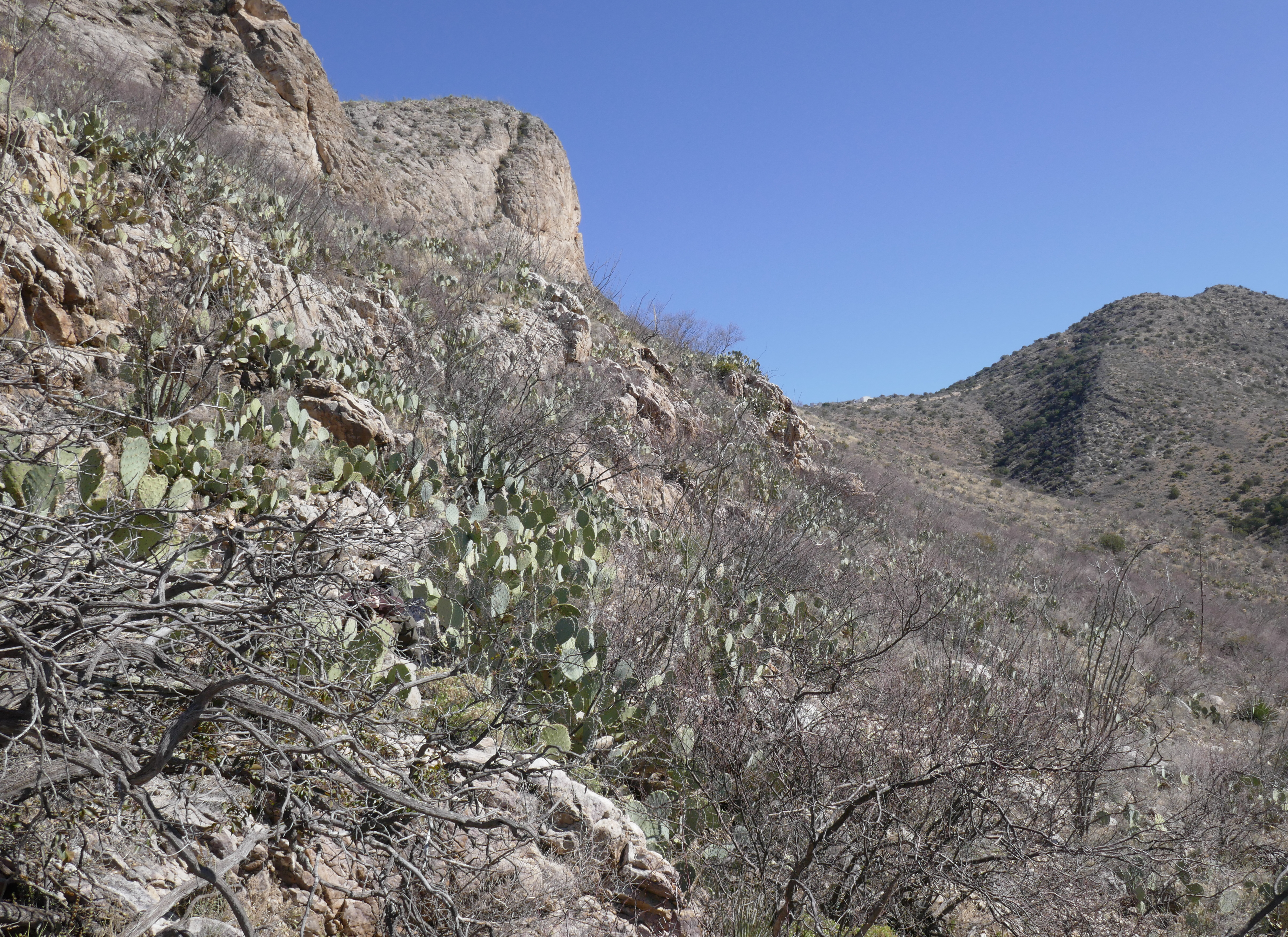 The south-facing hillside that is the type locality of the Portal Talussnail Sonorella neglecta. Gregg (1951) described the site as below low granitic cliffs 3 miles west along the road from Portal to Paradise, in the Chiricahua Mountains of SE Arizona (Cochise County). In fact the cliffs are limestone. Gregg collected in March and October 1948, finding only empty shells, but Miller (1967) subsequently found living specimens here. The view is from a little lower (1650 m) than where Gregg said he collected (5300 ft ~ 1750 m) but living specimens of the species were present in shaded gullies in the low cliffs in the foreground. Photographer = John M.C. Hutchinson. Identification by John M.C. Hutchinson. Photographed 13 Feb 2020.